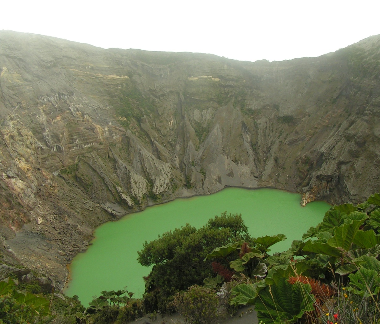 Irazu crater lake (Diego de la Haya) seen from the Mirador